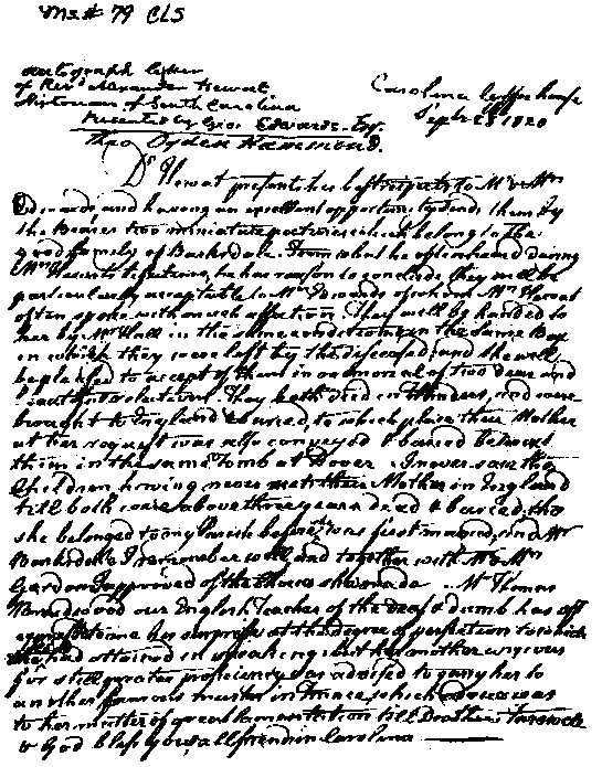 This is a manuscript letter from Dr Alexander Hewat in 1820 to George Edwards Esquire in Charleston, showing that he spelled his name "Hewat" and not "Hewatt"